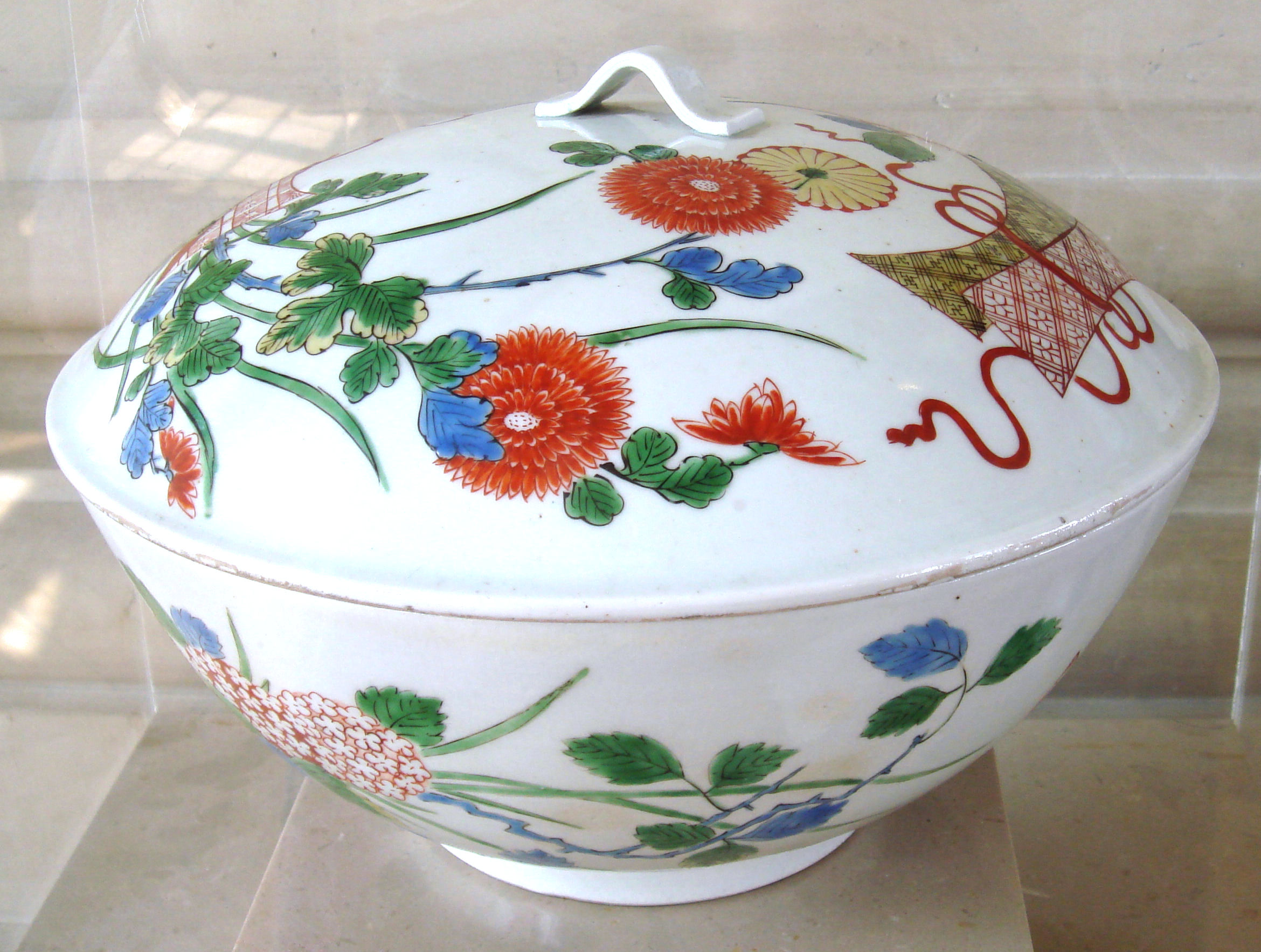 Imari_porcelain bowl_Japan_circa_1640